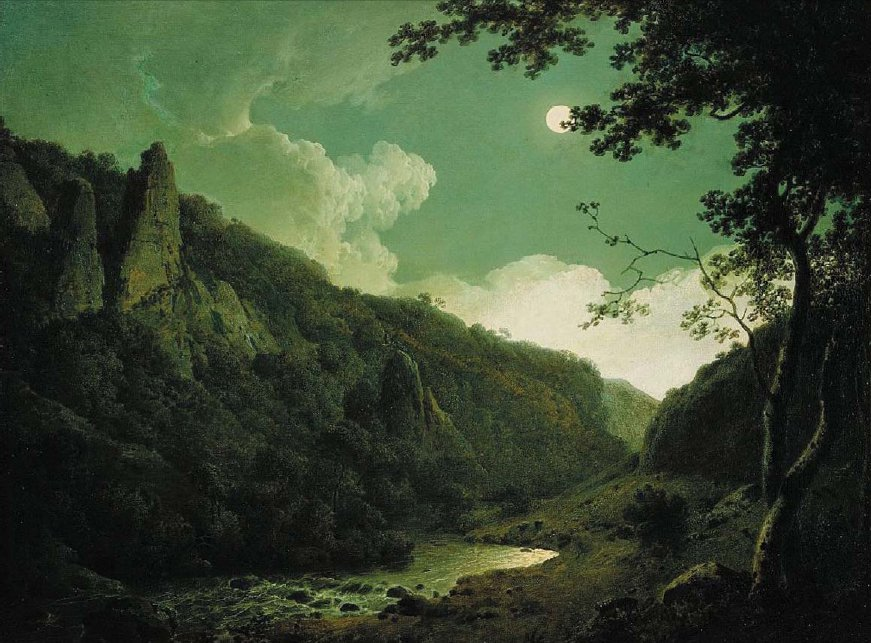 Dovedale by Moonlight